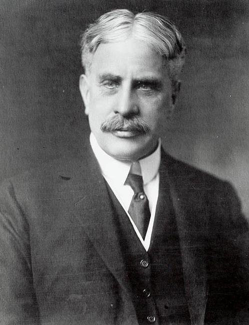 Sir Robert Borden.